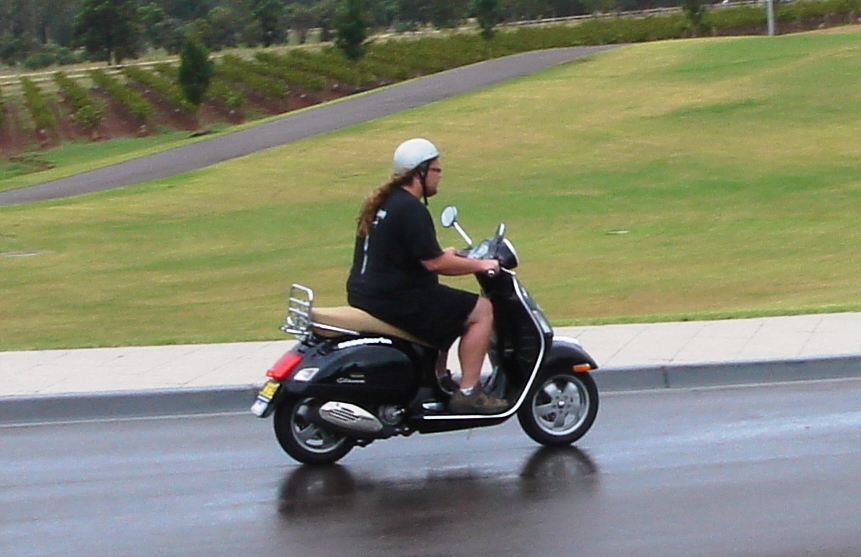 Michael 'Mikey' Teutul from the TV program 'Orange County Choppers'. He is on a motor scooter. Pic taken in the Hunter Valley, NSW, Australia.